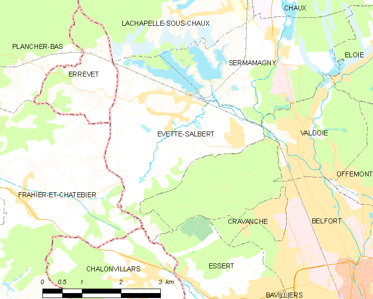 Map of French municipality Évette-Salbert